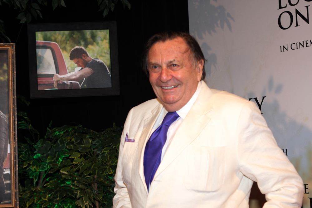 Barry Humphries at the The Lucky One World Premiere At Bondi Juction, Sydney, Australia